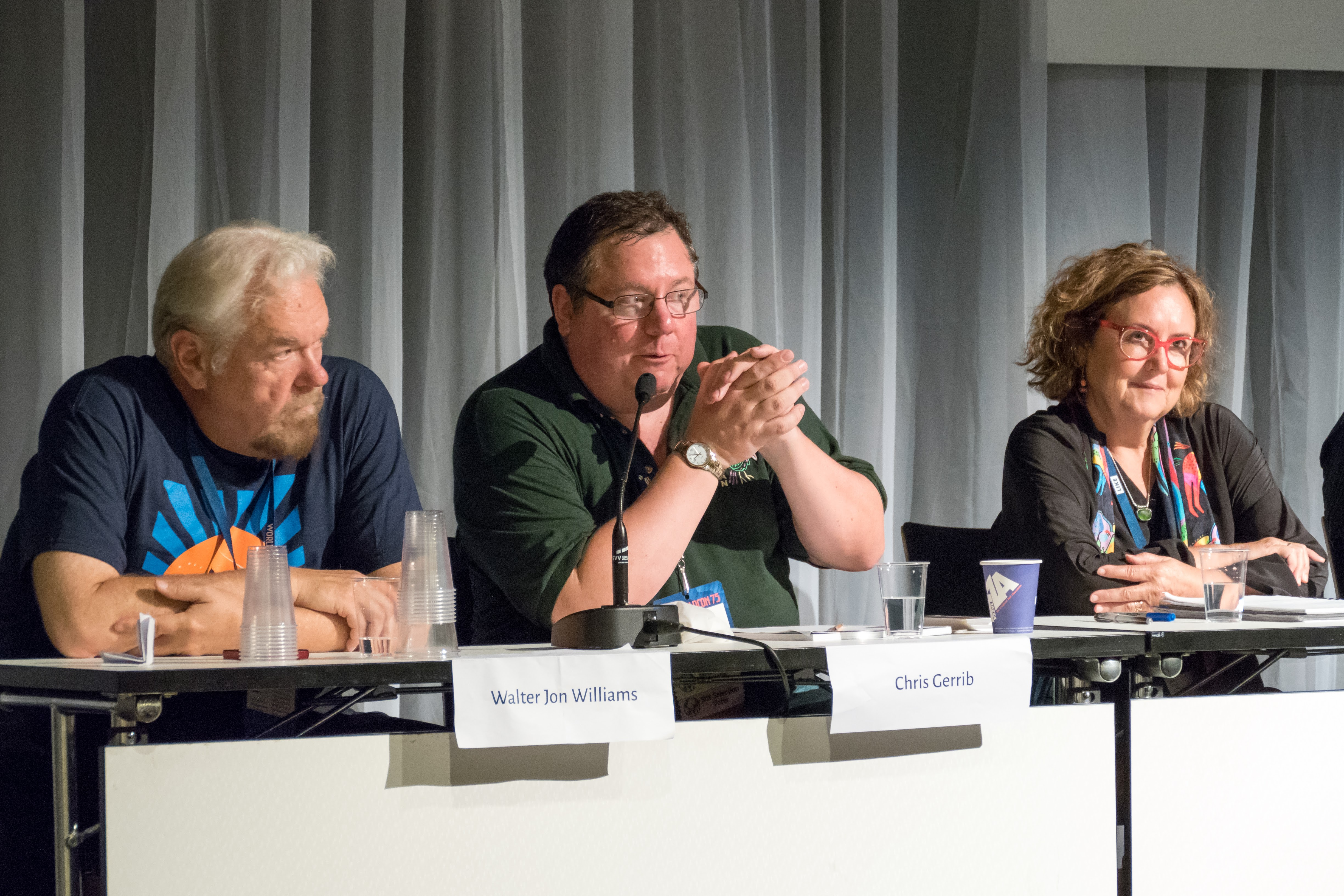 World Science Fiction Convention in Helsinki, 2017. Future Shock, and Do YOU Suffer From It? Walter Jon Williams, Chris Gerrib and Kathleen Ann Goonan